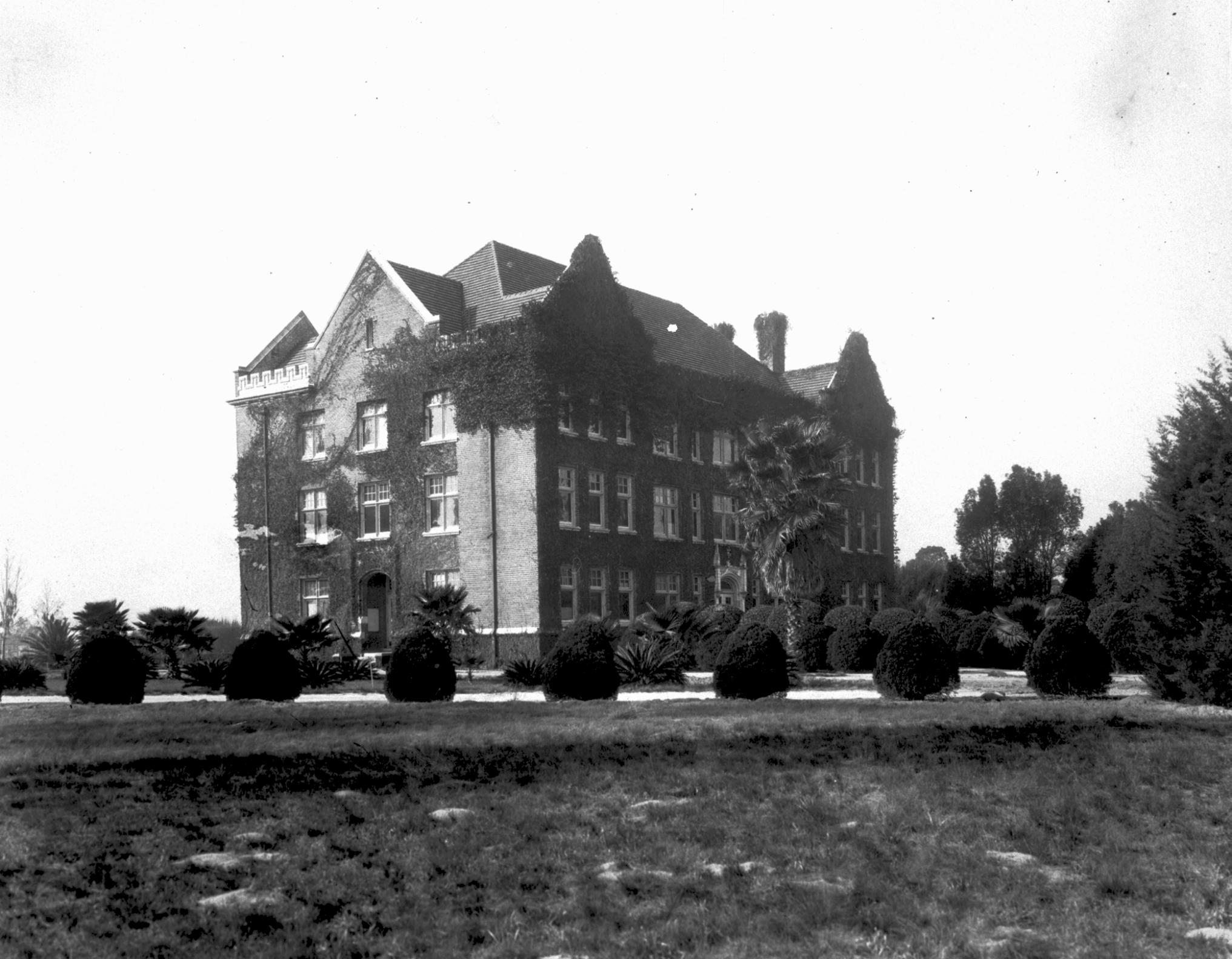 A historic photo of Newell Hall